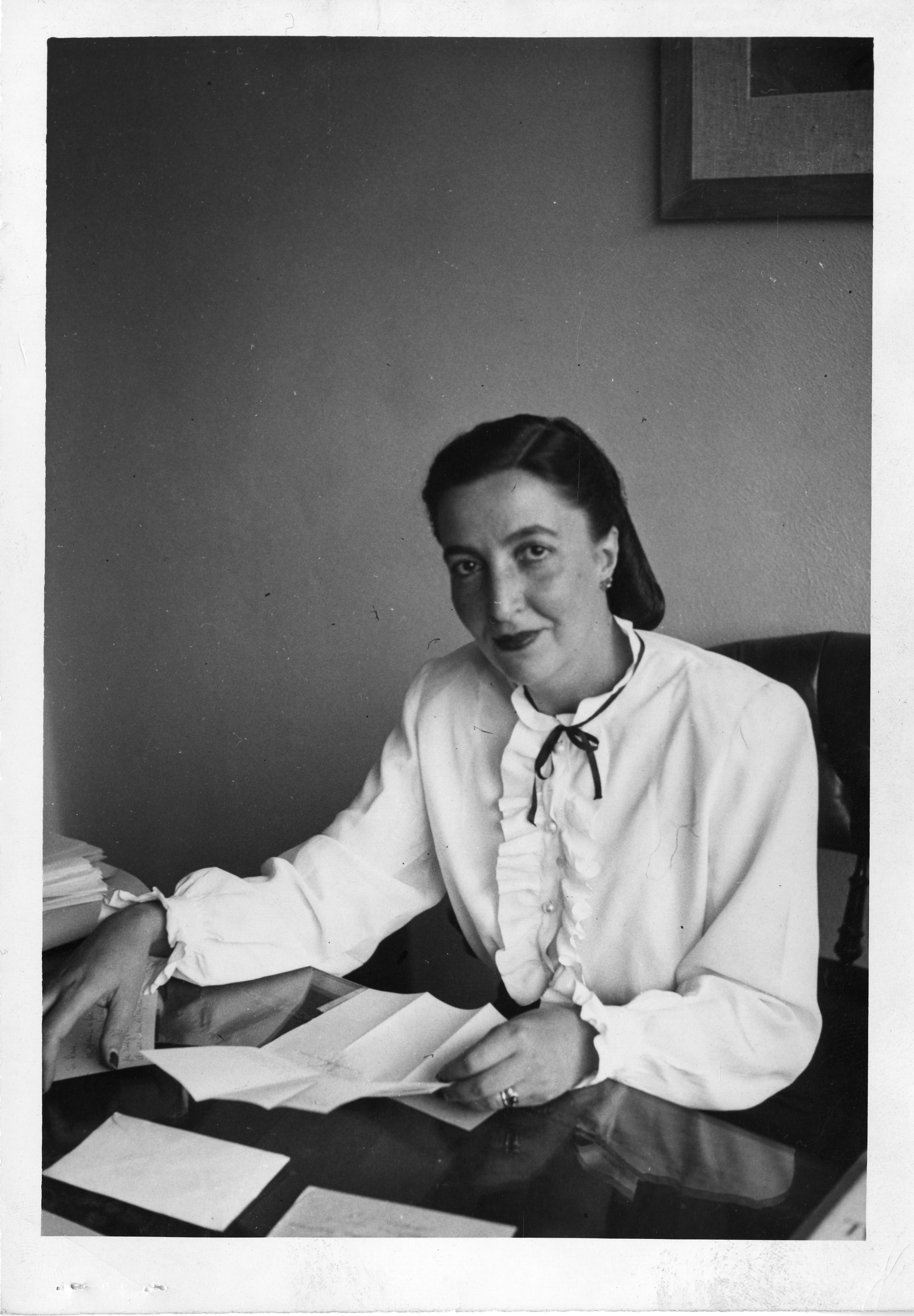 Carolina Amor du Fournier was associated with the Mexican journal La Prensa Médica Mexicana and was editor of Hummingbirds and Orchids of Mexico (1963).